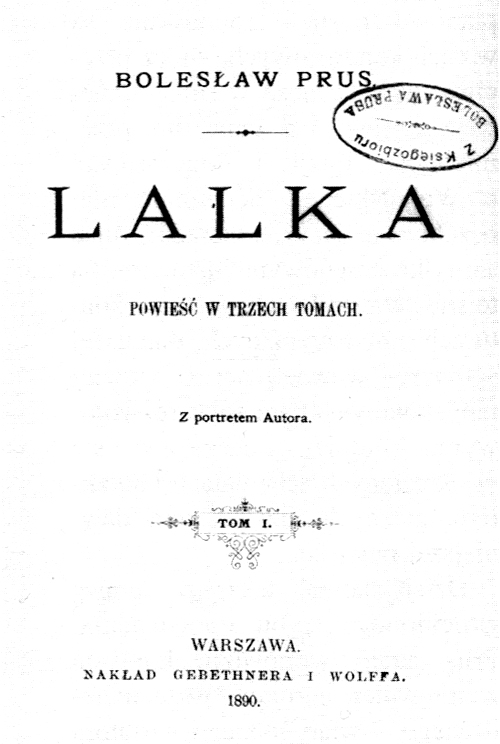 First page of the novel "Lalka" by Boleslaw Prus, 1890.